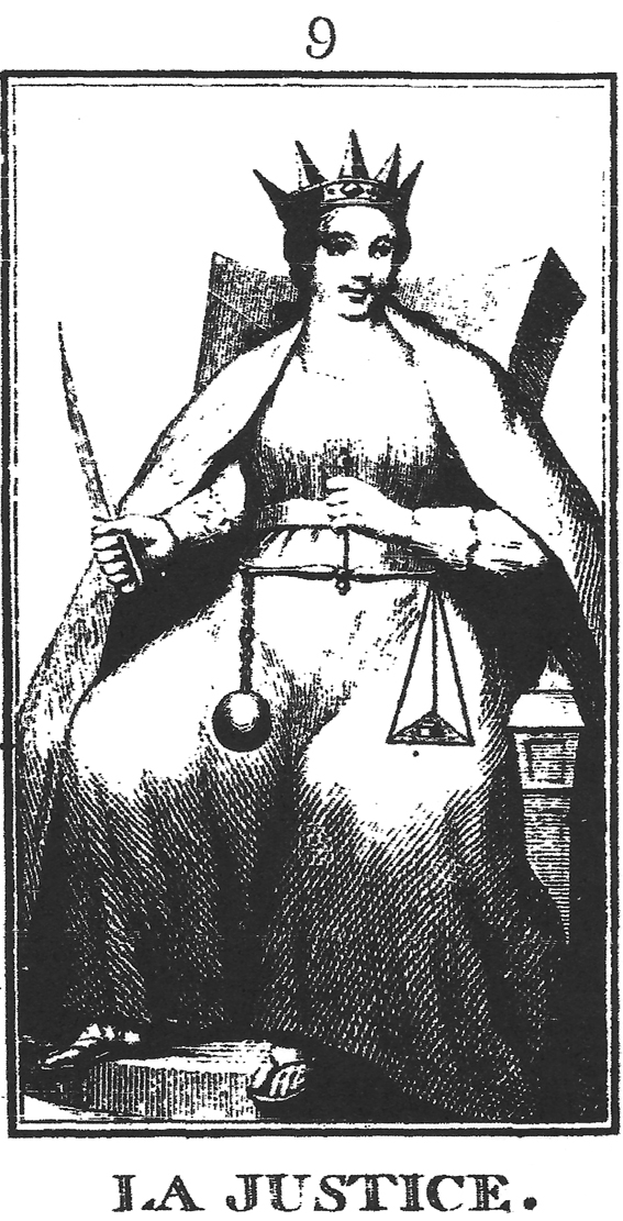 The Major Arcana "The Justice" - From Etteilla (Jean-Baptiste Alliette), Manière de se récréer avec le jeu de cartes nommées Tarots Amsterdam, 1785